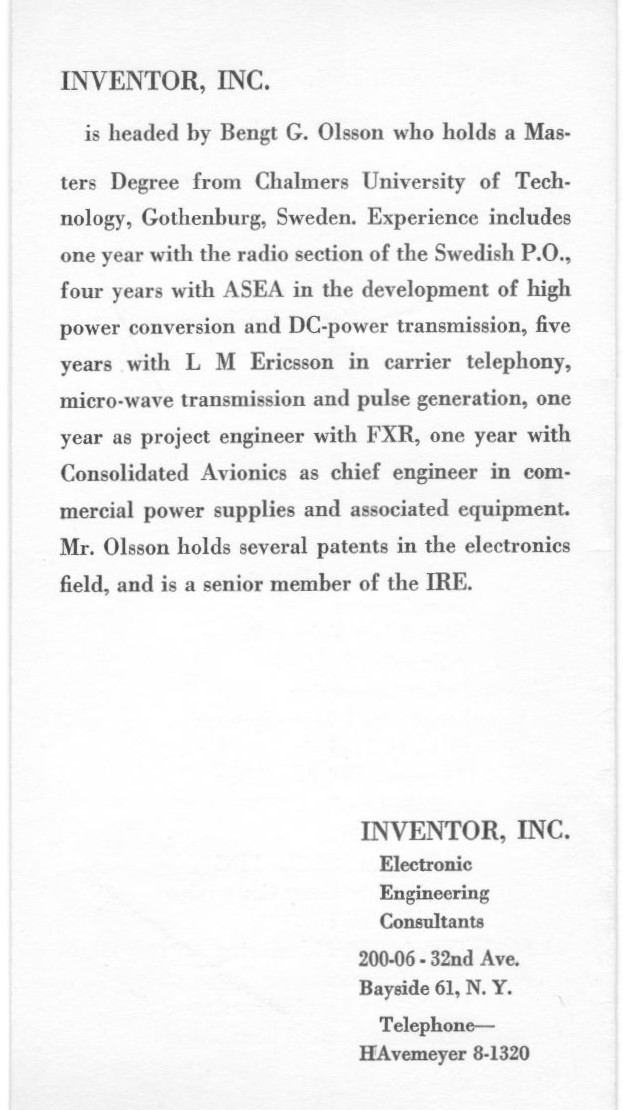 Backside of pamphlet introducing "Inventor, Inc.", Bengt G. Olsson's consultancy company, active in New York, USA, in the beginning of the 1960s.